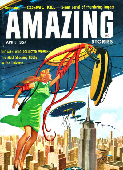 Cover of Amazing Stories, April 1957